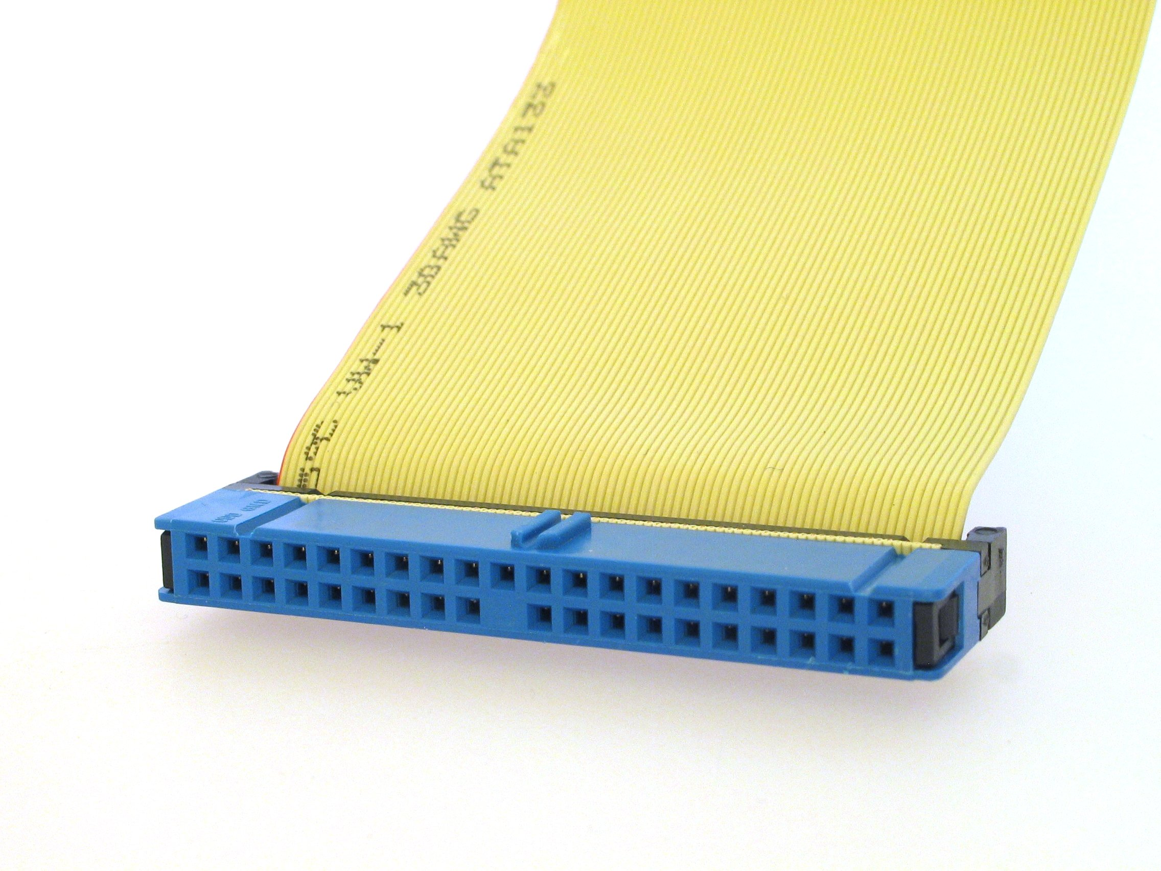 ATA connector, photo taken in Sweden